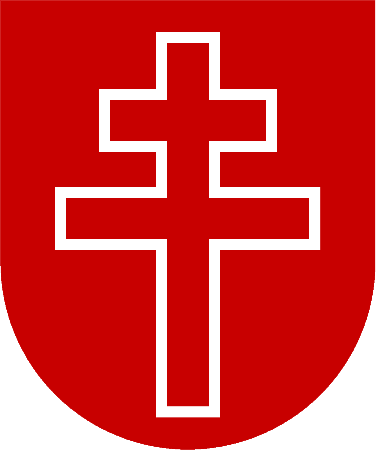 Emblem of the Canons Regular of the Holy Sepulchre Version Gules/Gules